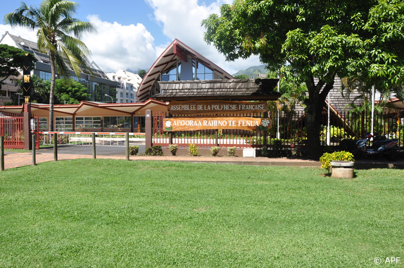 Assembly of French Polynesia